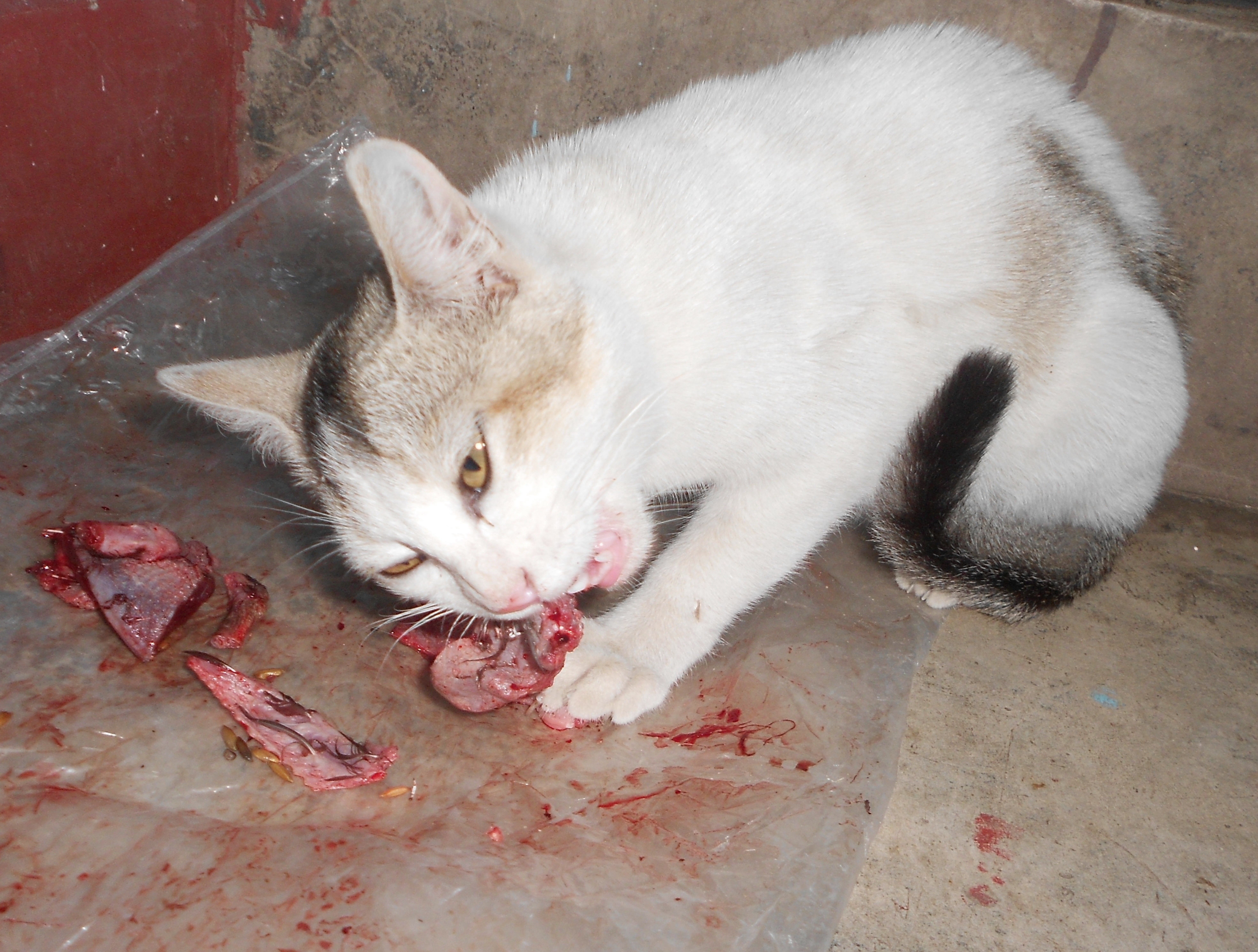 Pet cat from Nepal eating pigeon flesh.